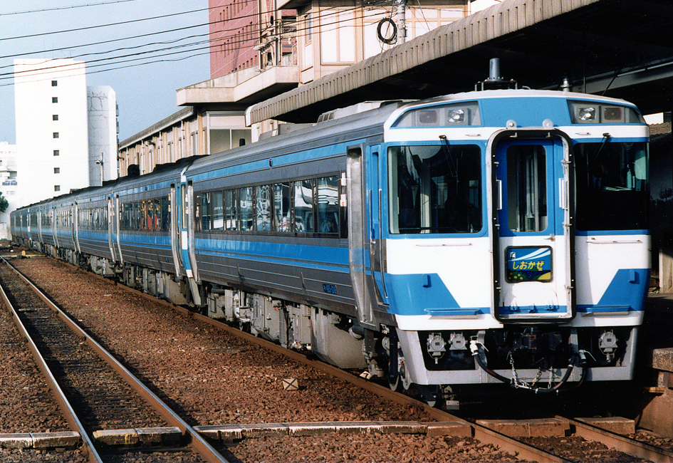 JR Shikoku Kiha 185 series DMU for the Limited Express Shiokaze at Matsuyama Station